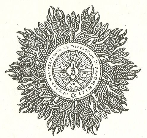 Order of Chakri, Thailand